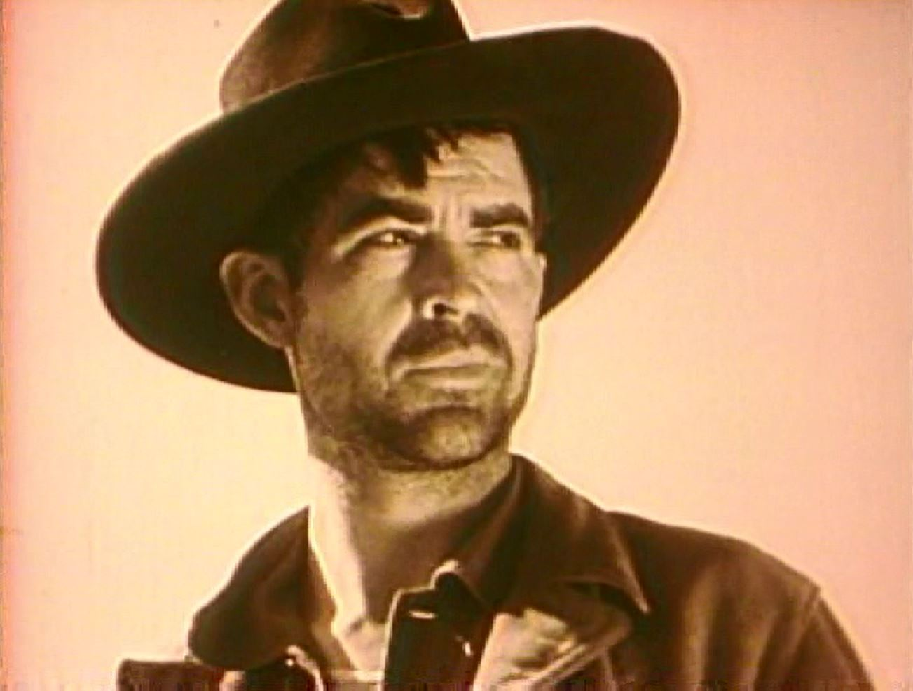 Low resolution screenshot of Mack V. Wright as Black Bailey in the American public domain western film Arizona Days (1928).